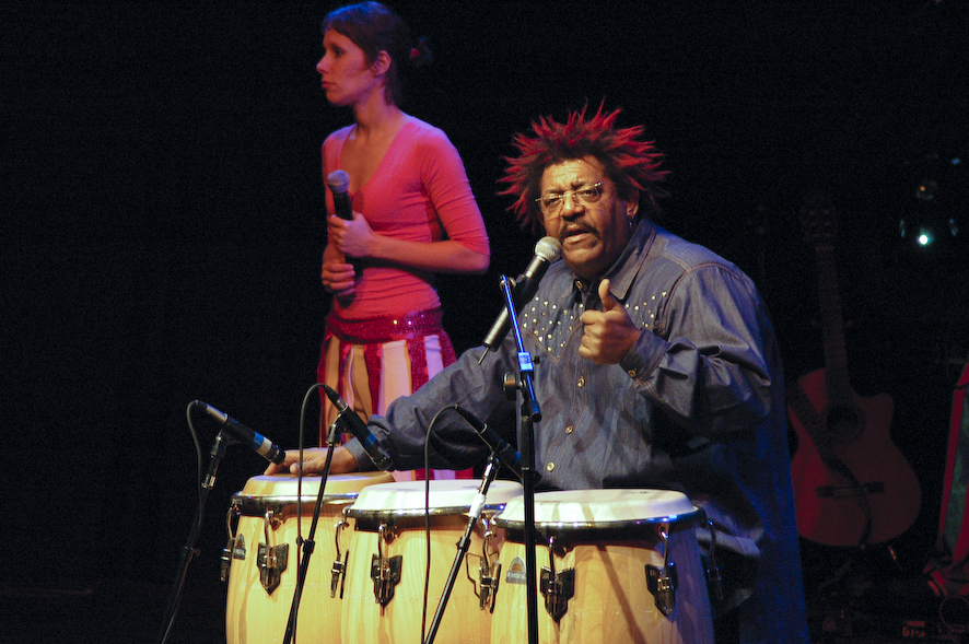 Ruben Rada - Ruben Ra concert for Children at the Conrad Hotel in Punta del Este - July 30th 2005.